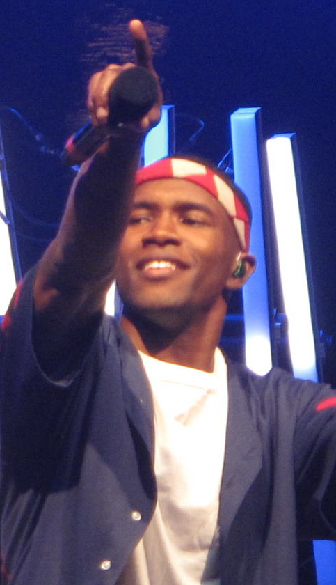 Frank Ocean holds his microphone out to the crowd while performing at Coachella 2012.